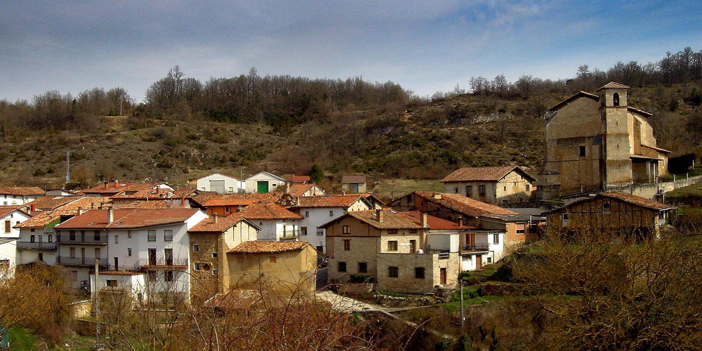 Korres (Maeztu, Araba, Basque Country, Spain)